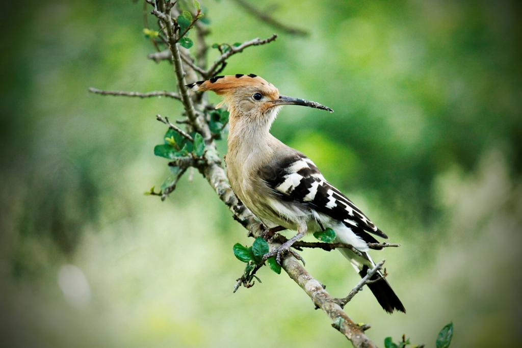 Hoopoe (Upupa epops)